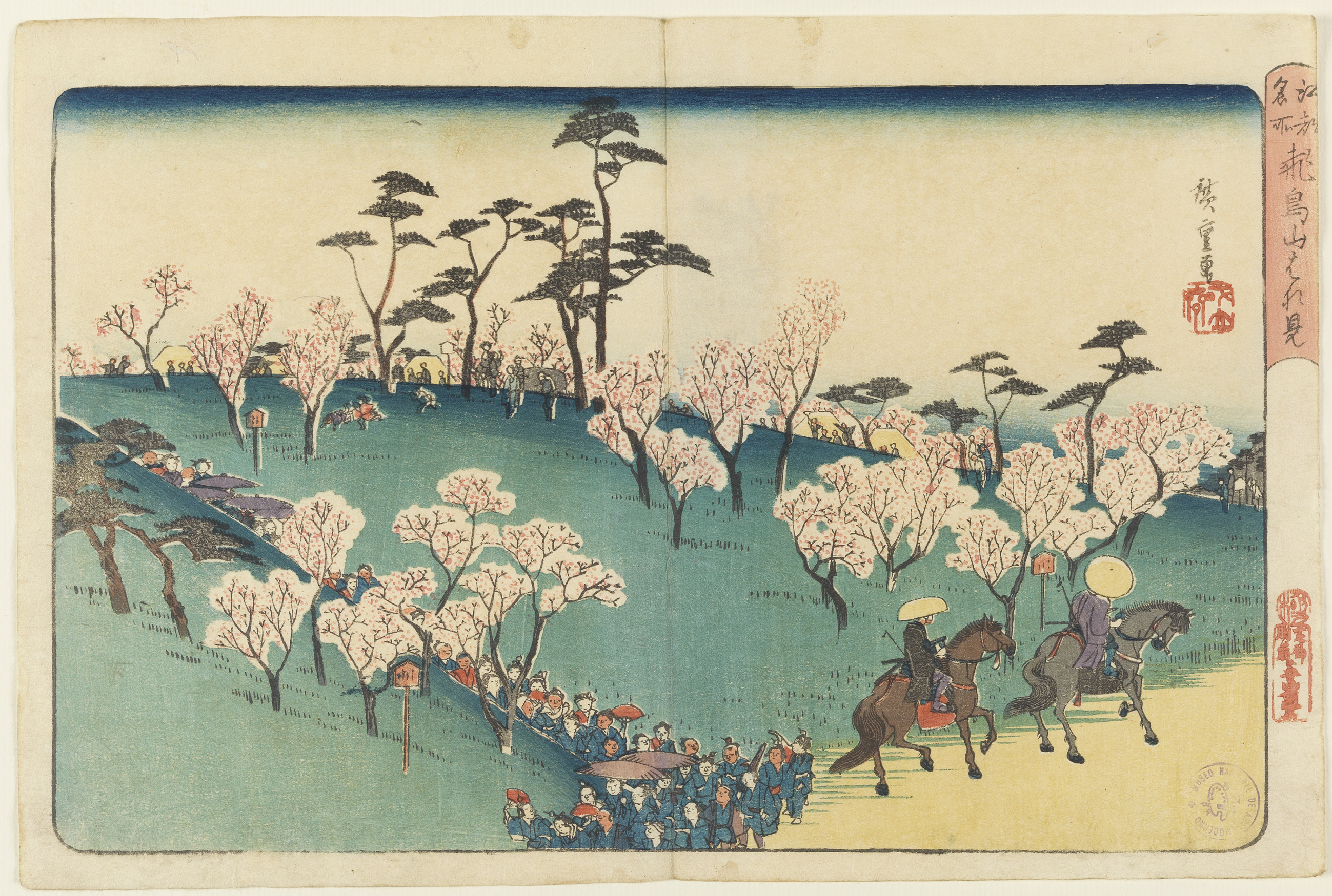 Cherry-Blossom Viewing at Asuka Hill (Asukayama hanami). From the series "Famous Places in Edo (Kôto meisho)". Woodblock print. 250 x 370 mm c. 1830 – 1844